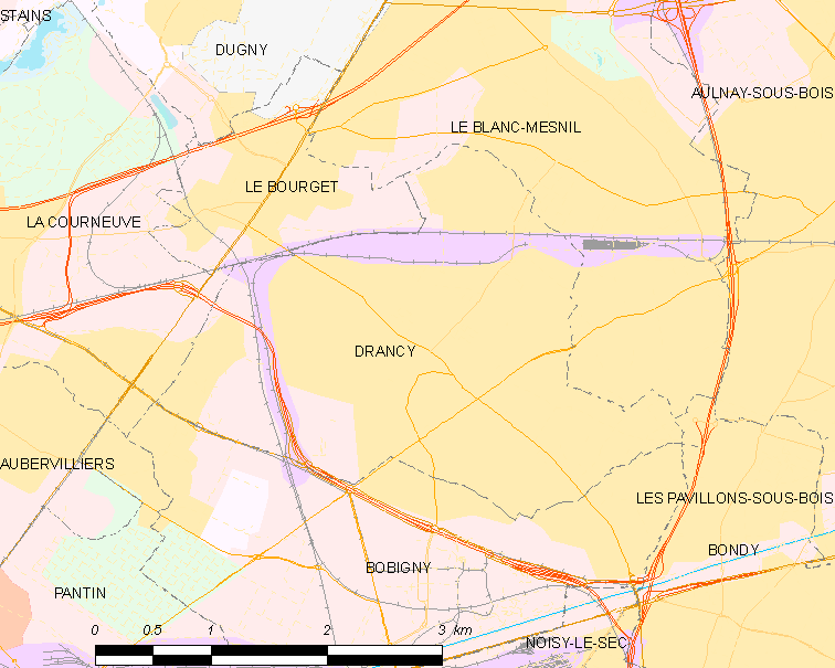 Map of French municipality Drancy